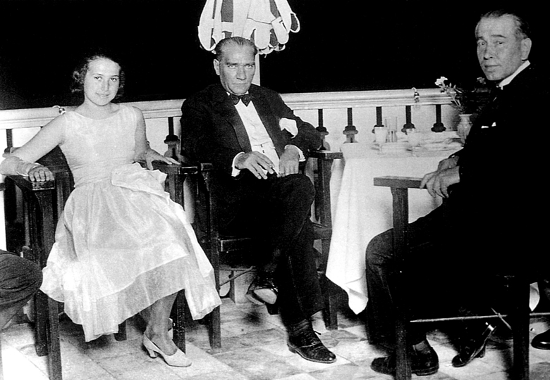 From right to left: Fethi Bey (Okyar), Mustafa Kemal Pasha (Atatürk), and Ali Fethi's daughter Nermin Hanım (Kırdar) in Yalova, on August 13, 1930.